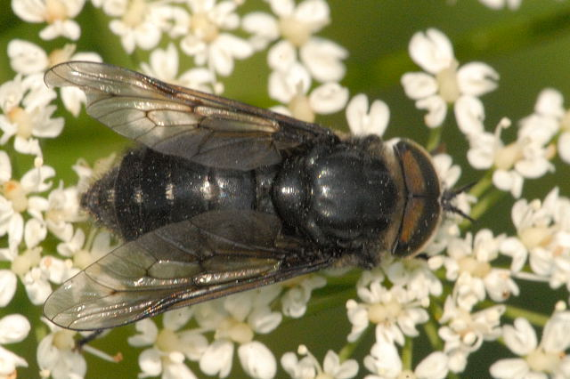 Hybomitra micans from Commanster, Belgian High Ardennes .